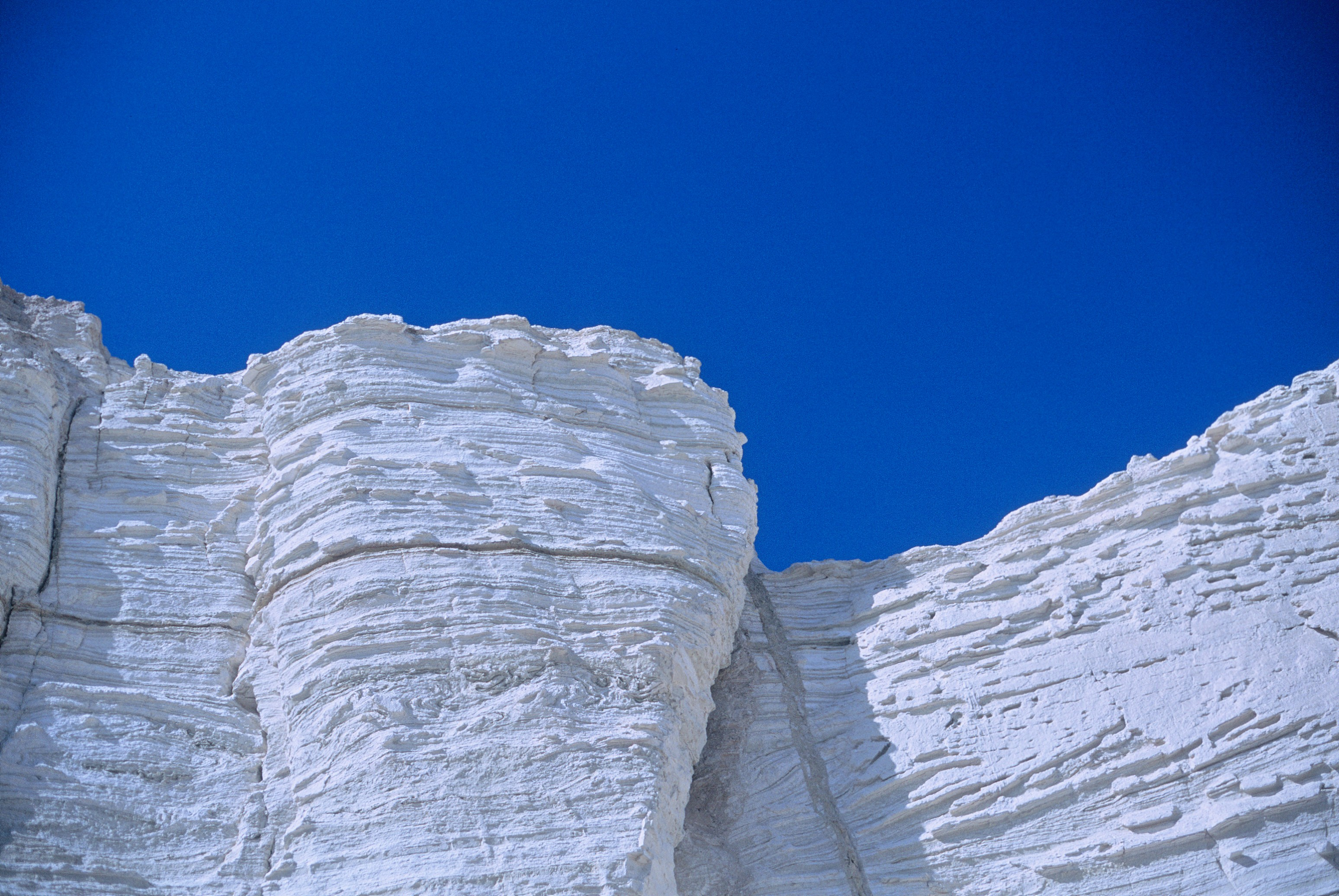 A salt cliff on Mt. Sodom